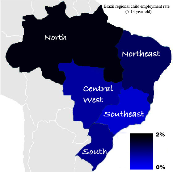 Child Employment Rate Below 13 according to region